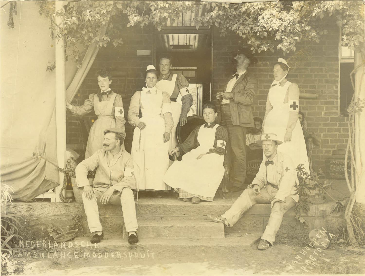 Dutch ambulance at Modderspruit during the Second Boer War, about 1900